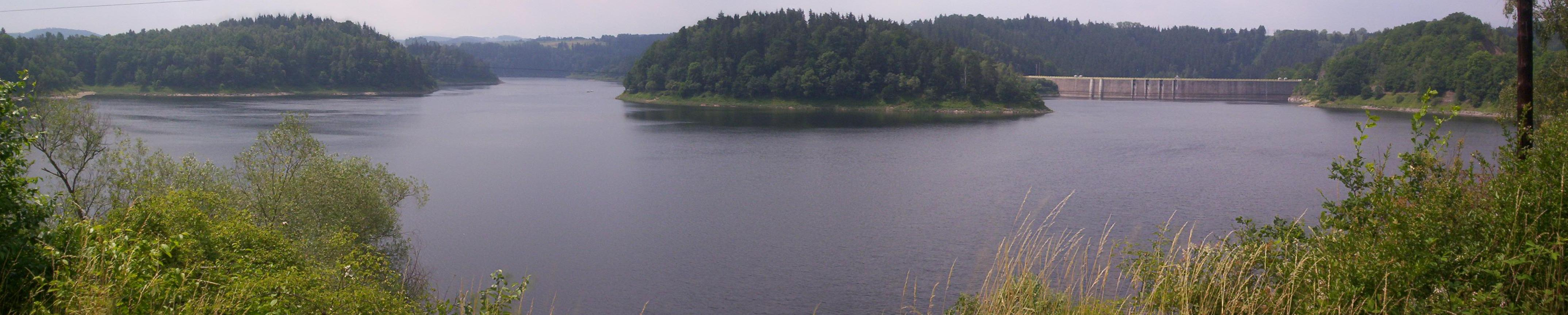 Jezioro Pilchowickie panorama